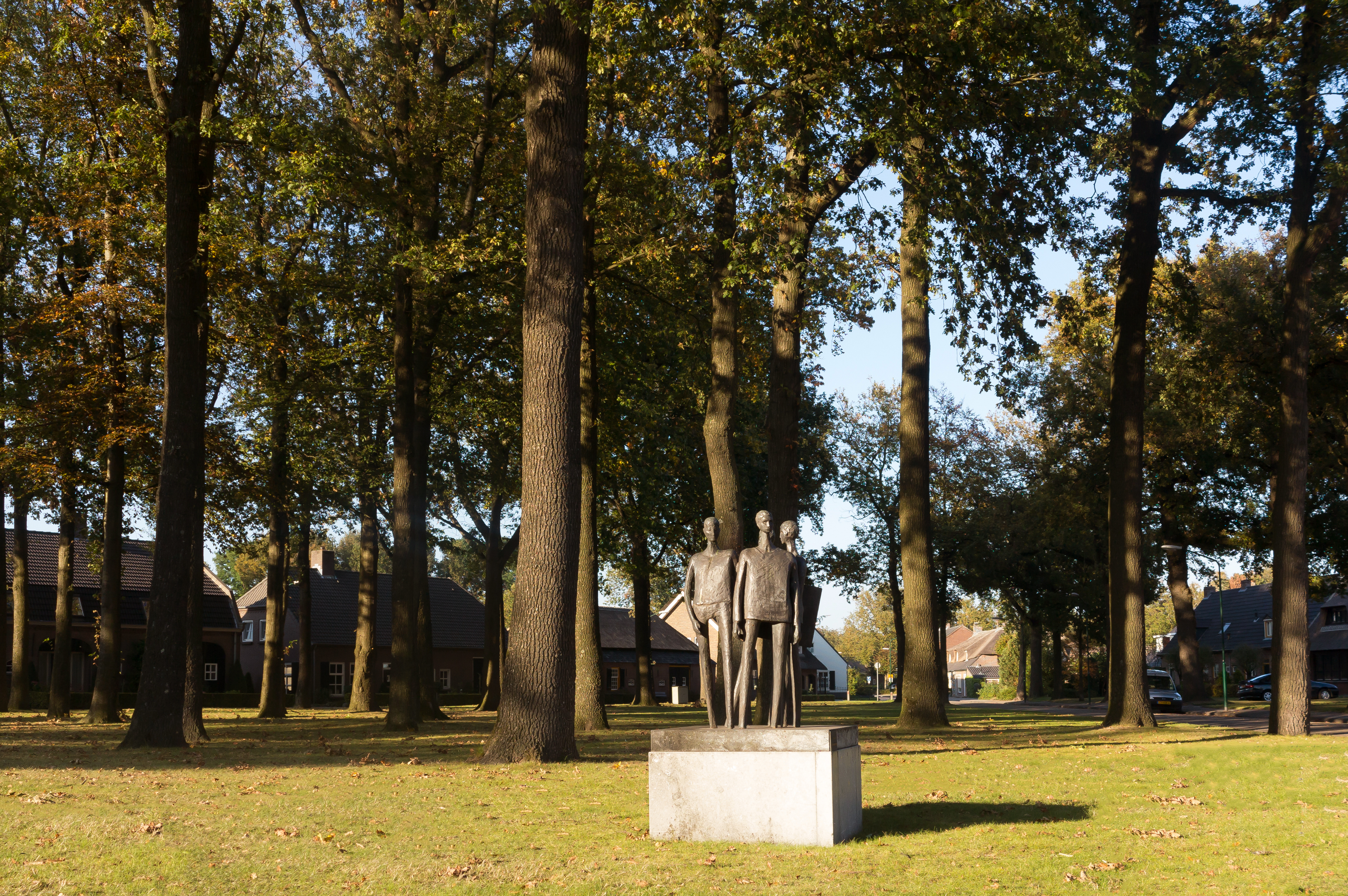 Heeze, sculpture for radio drama 'heer en meester'